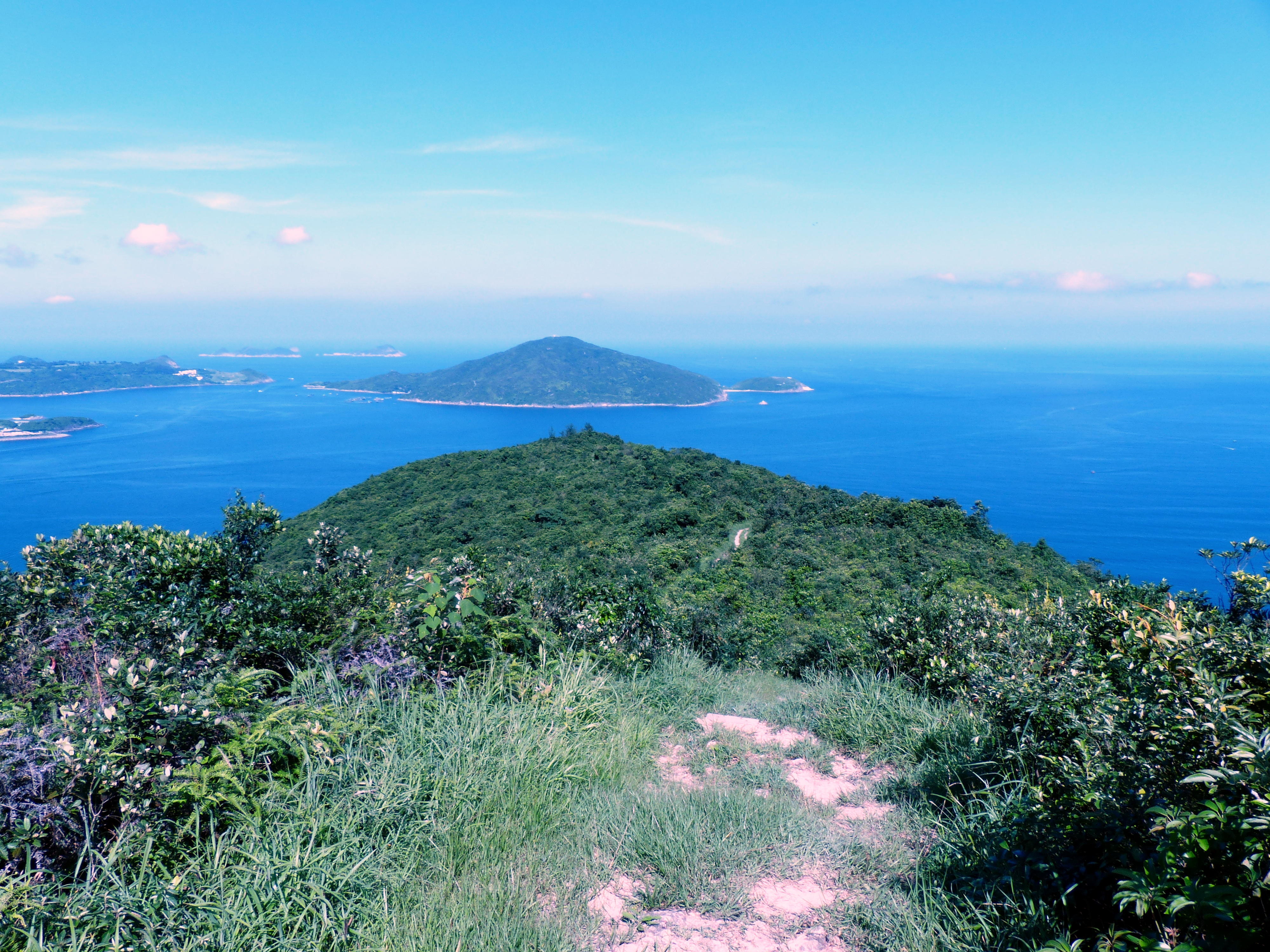 View on the hiking trail on Pottinger Peak